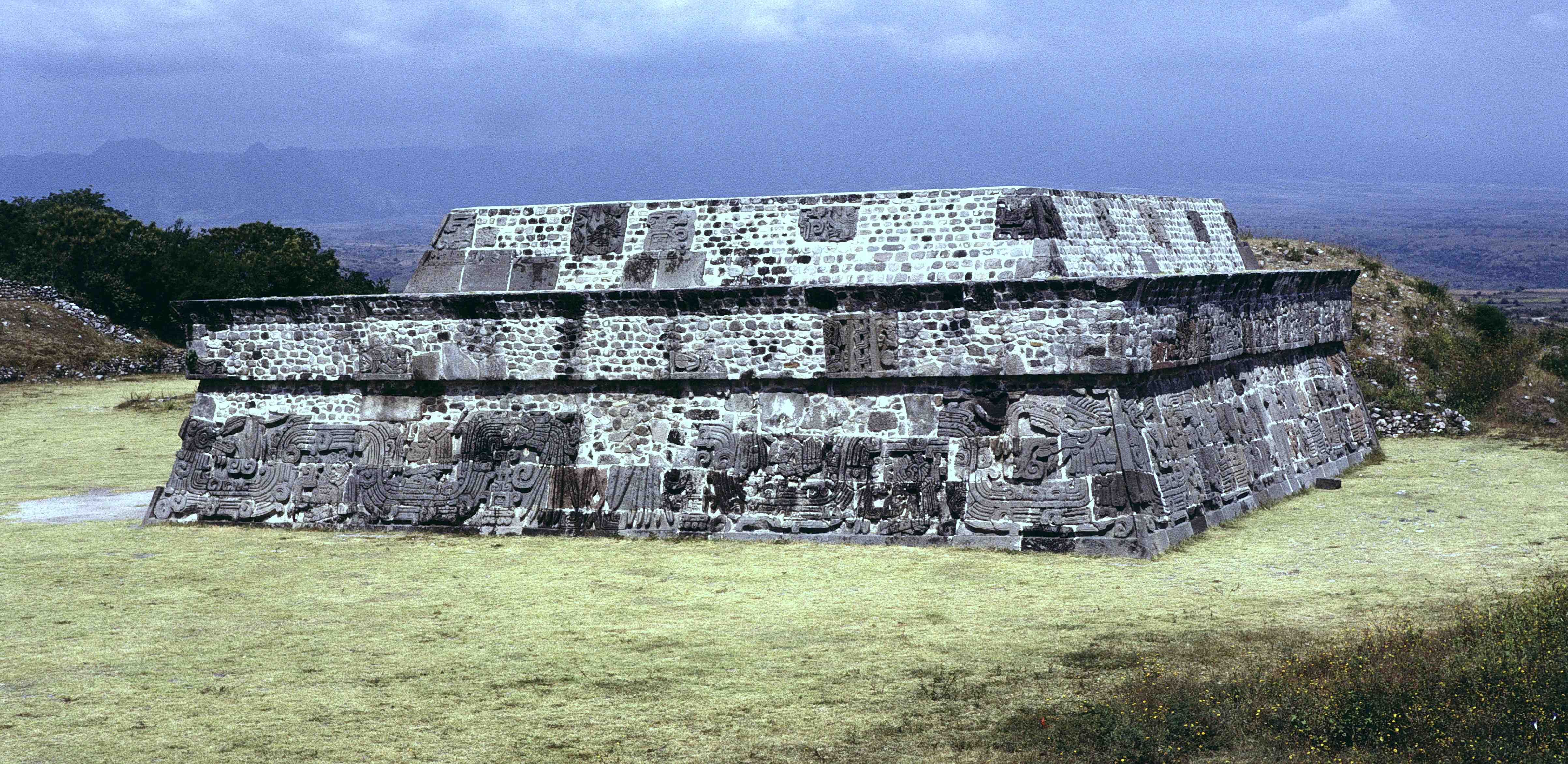 Xochicalco, Morelos, Mexico: pyramid of the feathered serpent, south facade